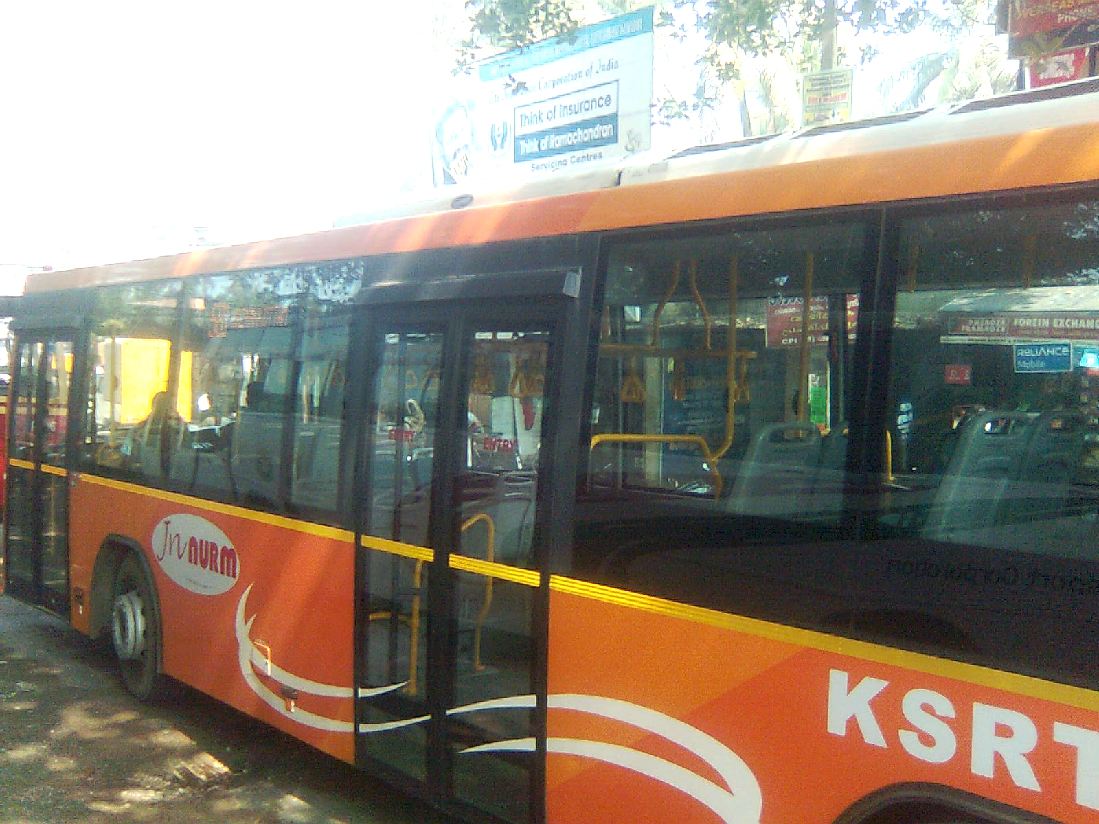 Low floor bus in Kazhakoottam, near Technopark, Thiruvananthapuram, Kerala, India.